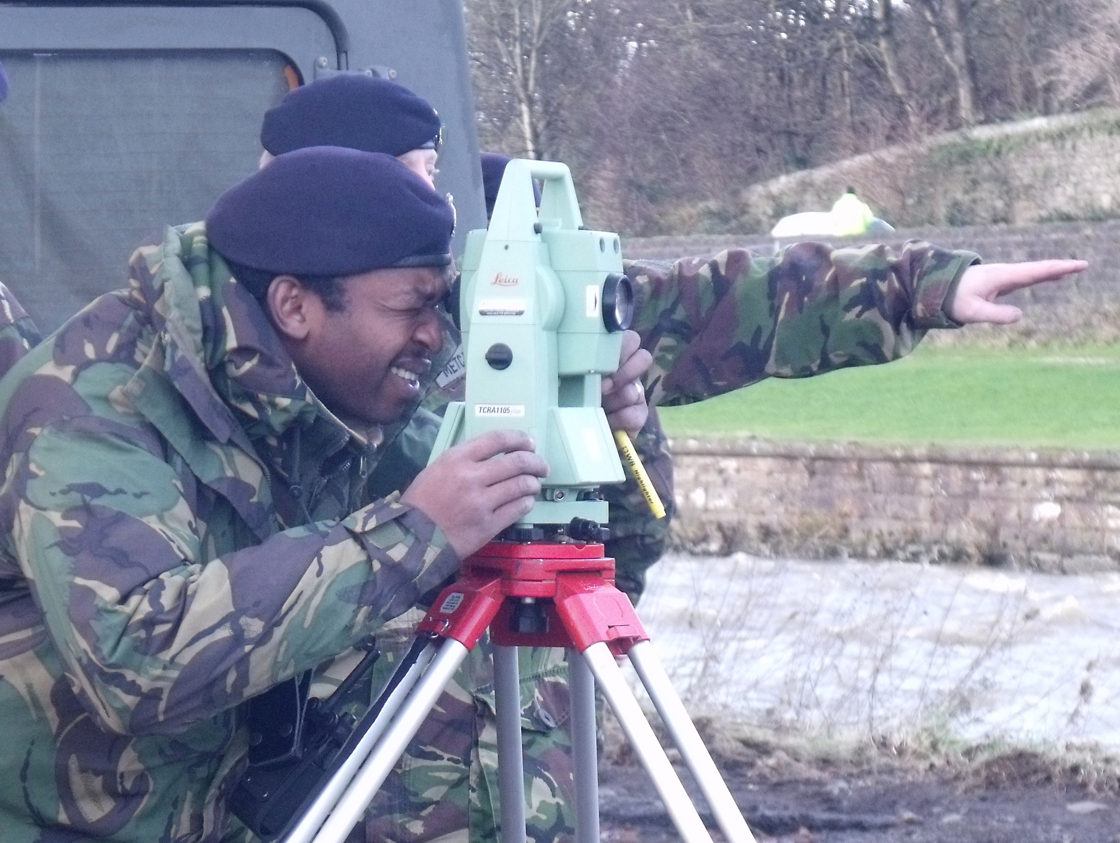 Photographer: Andy V Byers. Royal Engineers Boris Metcalfe and Godfrey Manduwi in Mill Field. They set the exact location for the bridge to cross the River Derwent.